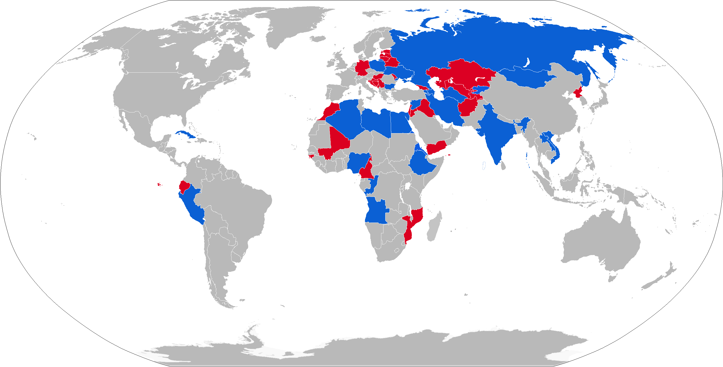 Map of ZSU-23-4 operators in blue with former operators in red